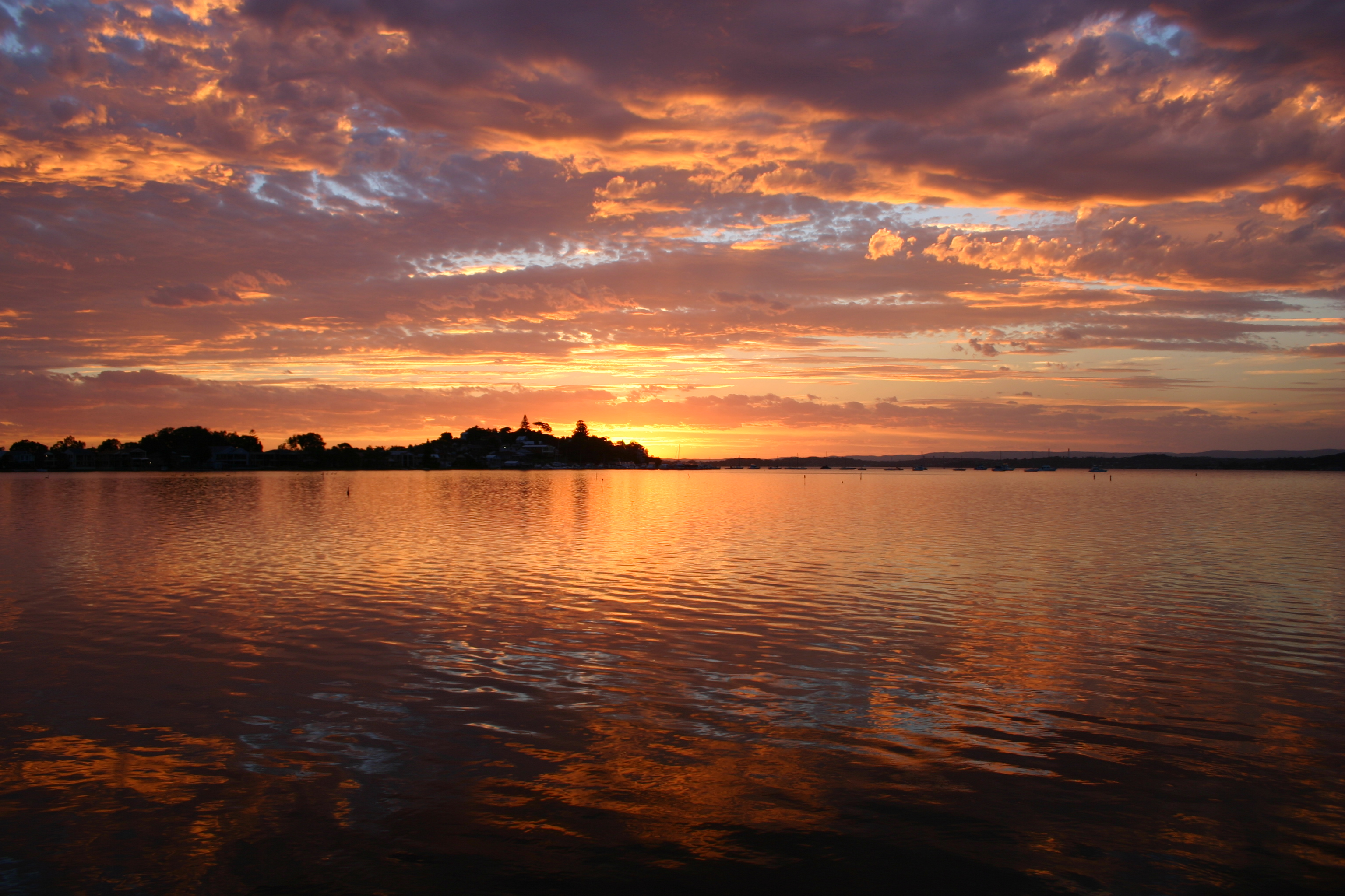 Author: Matthew Johnson